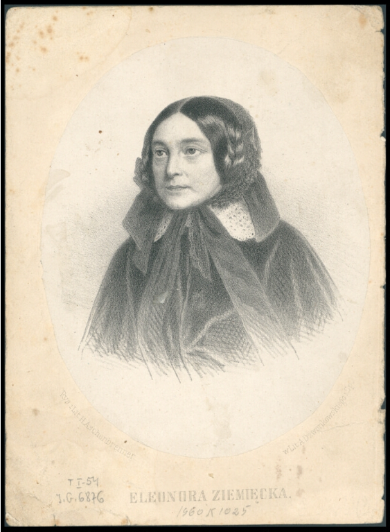 Litography from 1858